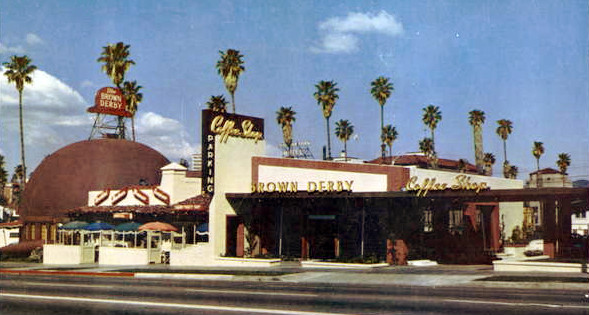 Postcard photo of the Brown Derby restaurant in Hollywood. This postcard was produced prior to 1978 and has no copyright markings. The image has been cropped and color adjusted. Most of the original building shown was destroyed by fire in 1987.